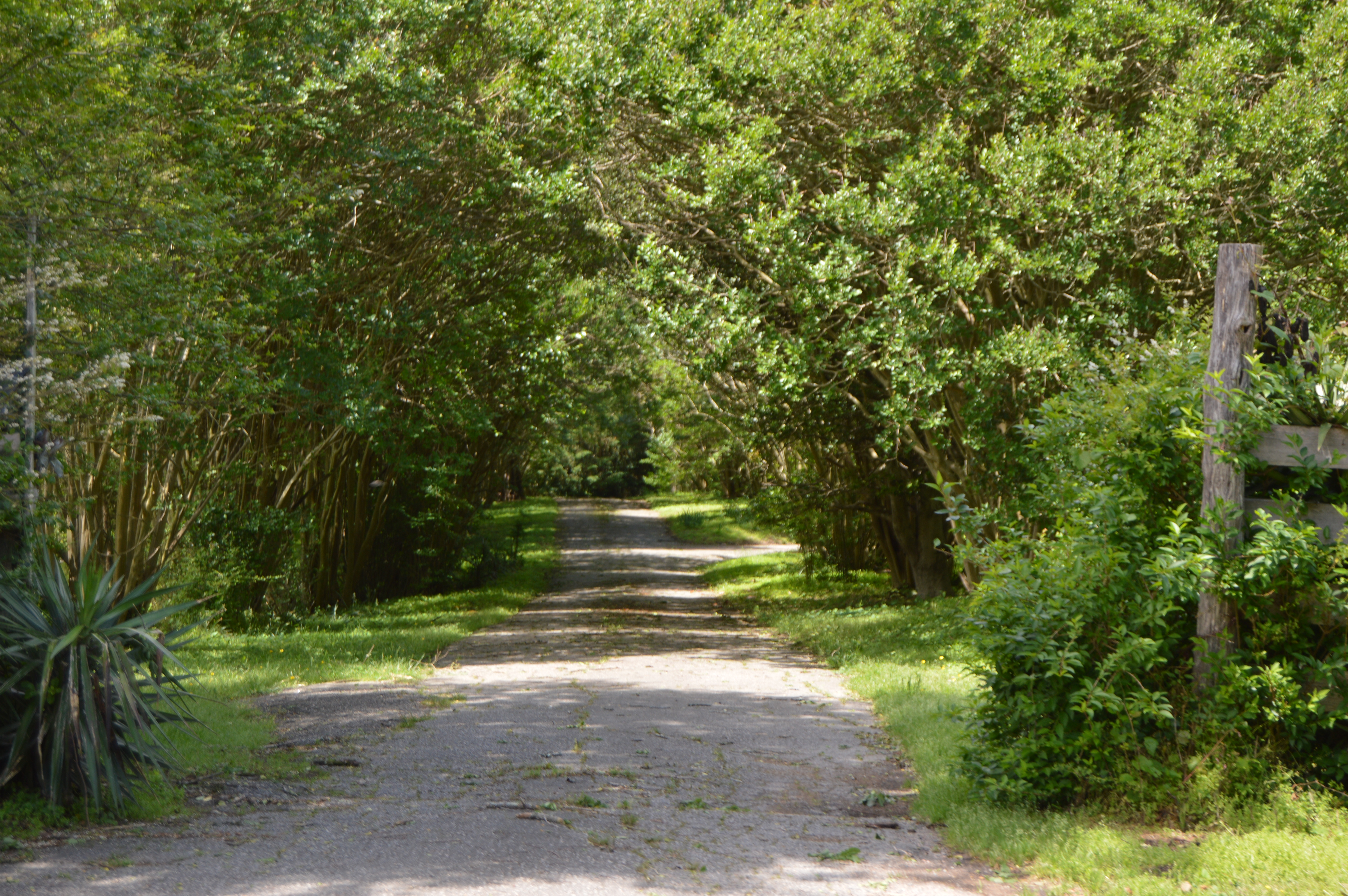 Driveway to the Evergreen estate, located on Ruffin Road east of Hopewell in Prince George County, Virginia, United States. The estate is listed on the National Register of Historic Places.